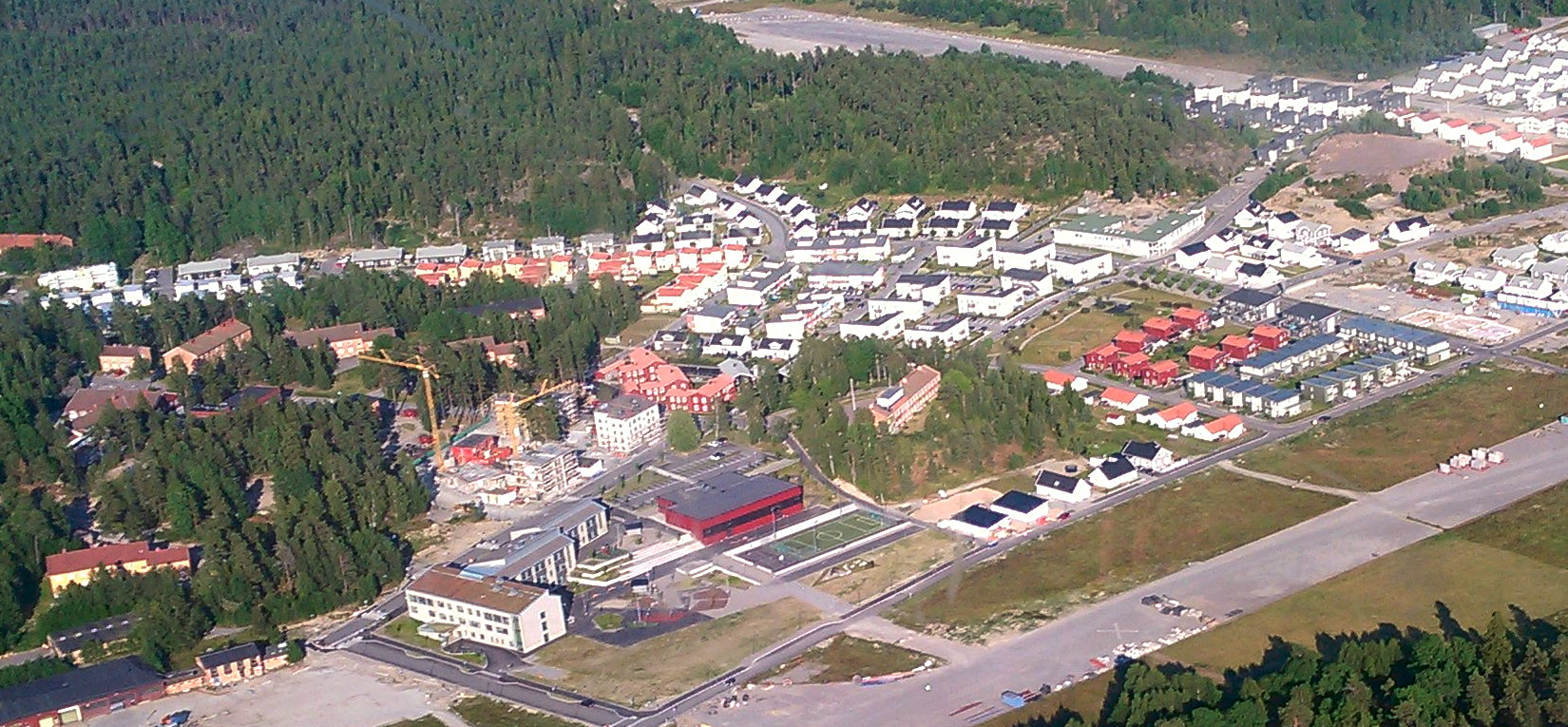 Aerial photo of Riksten, taken from a helicopter.